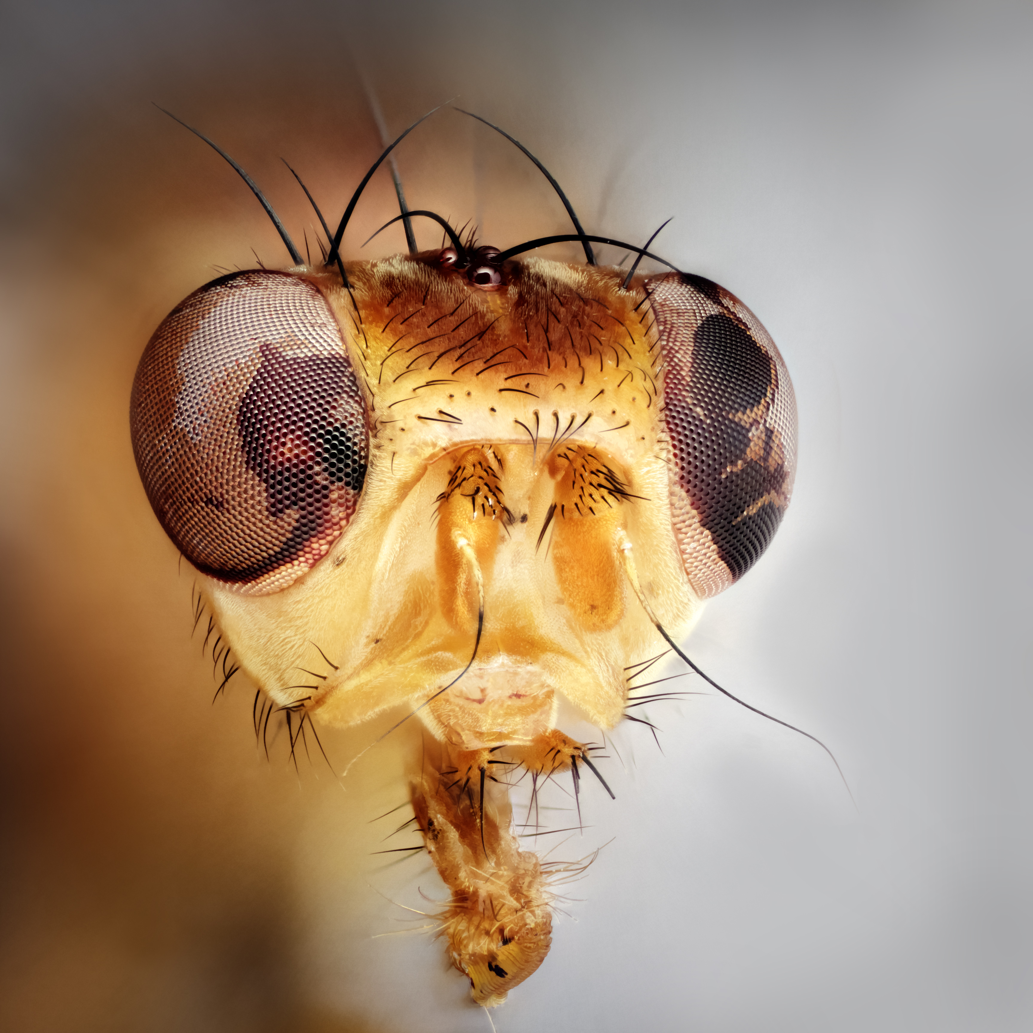 Showing the overhanging frons. Highest position in Explore: #385 on Nov 10, 2015.